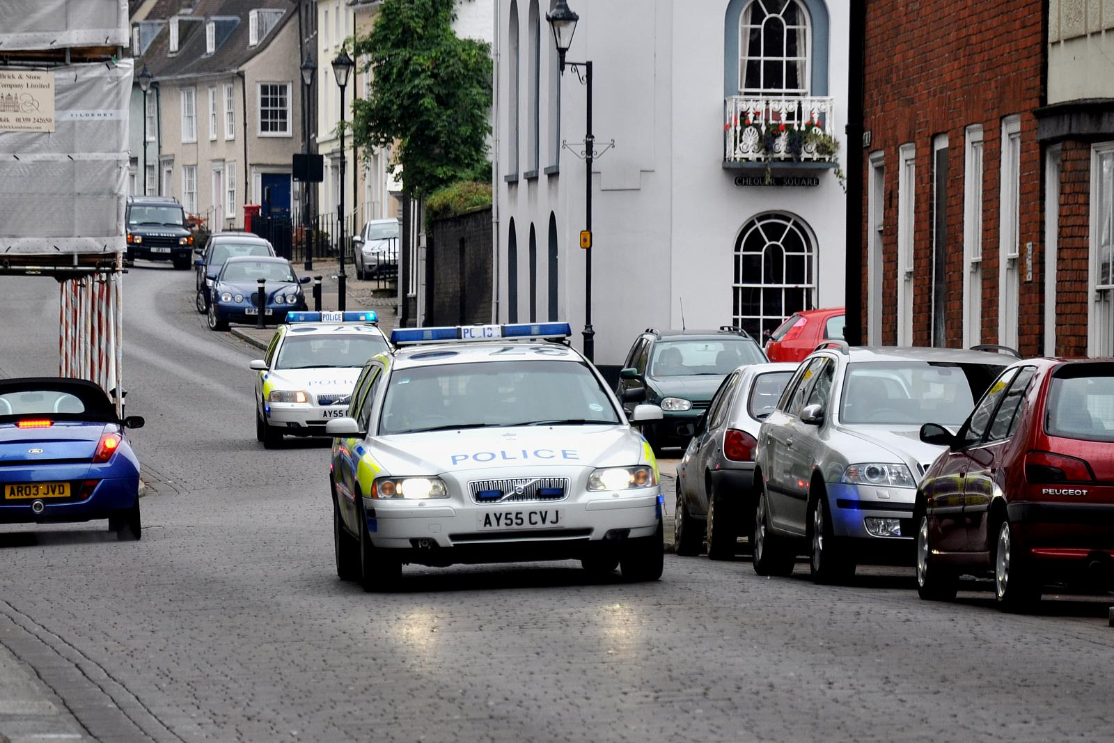 Two vehicles of the Suffolk Constabulary respond to an emergency call on Angel Hill, Bury St. Edmonds, Suffolk, England